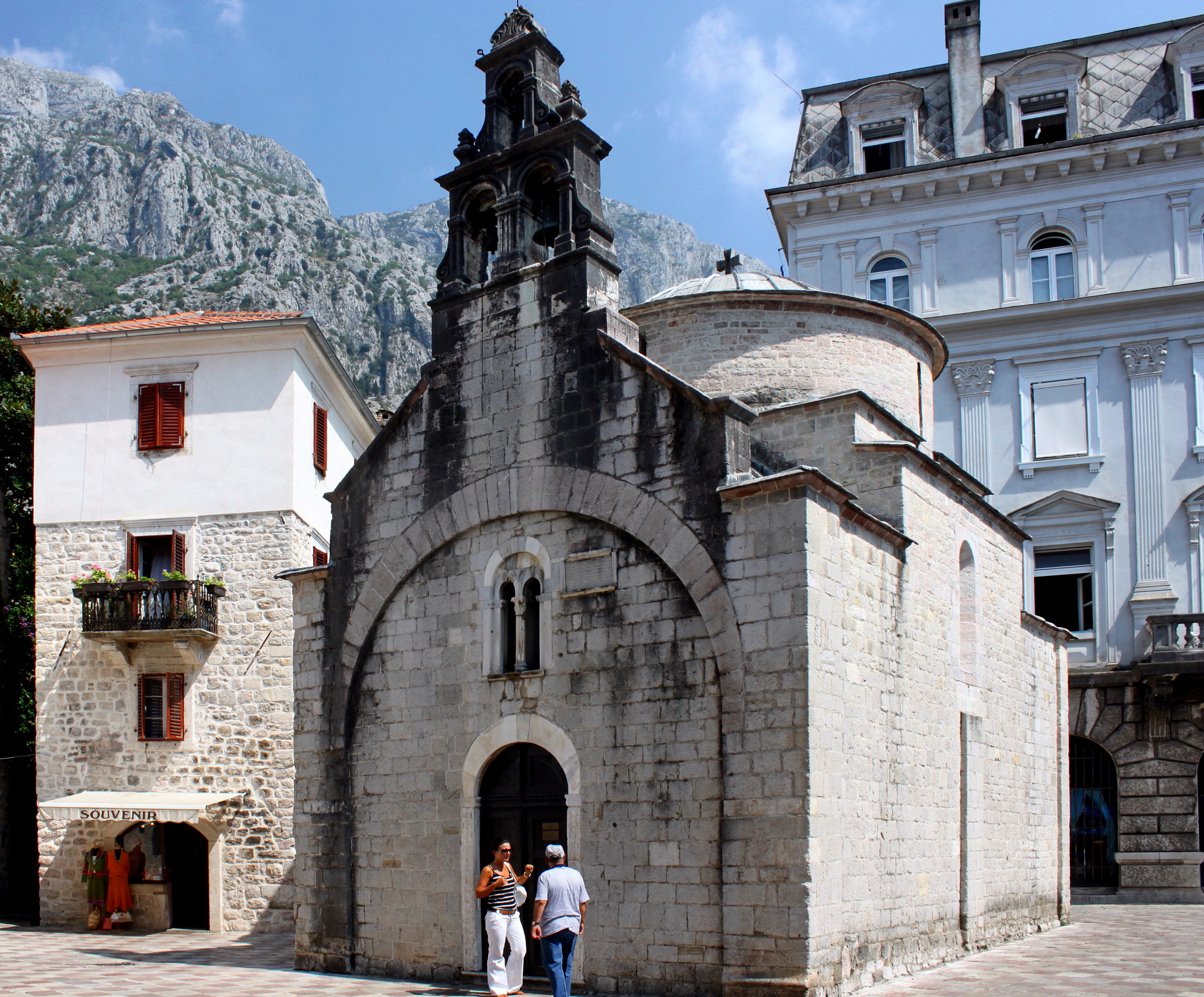 Saint Luke church. Kotor, Montenegro.